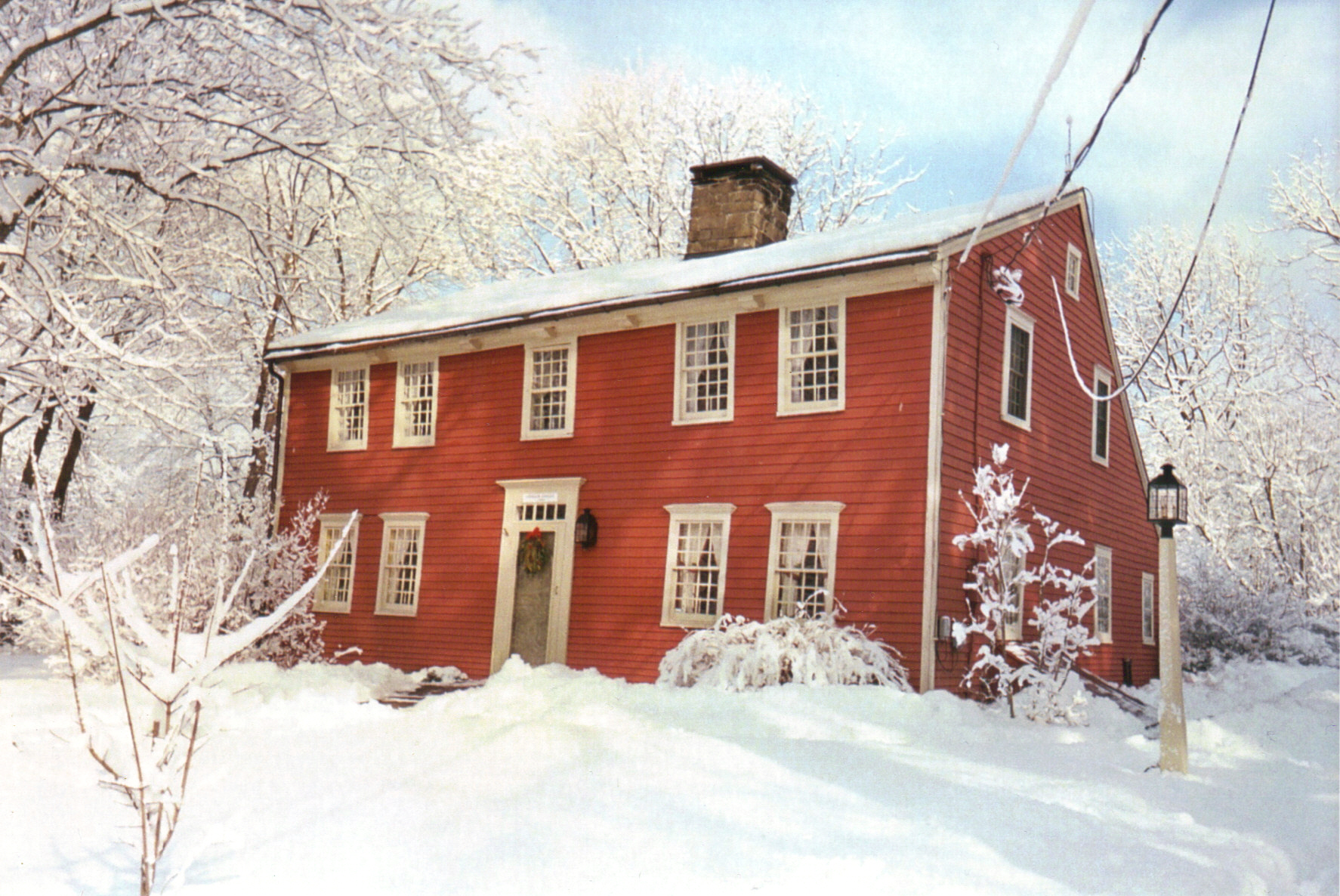 Picture of the Ephraim Hawley House